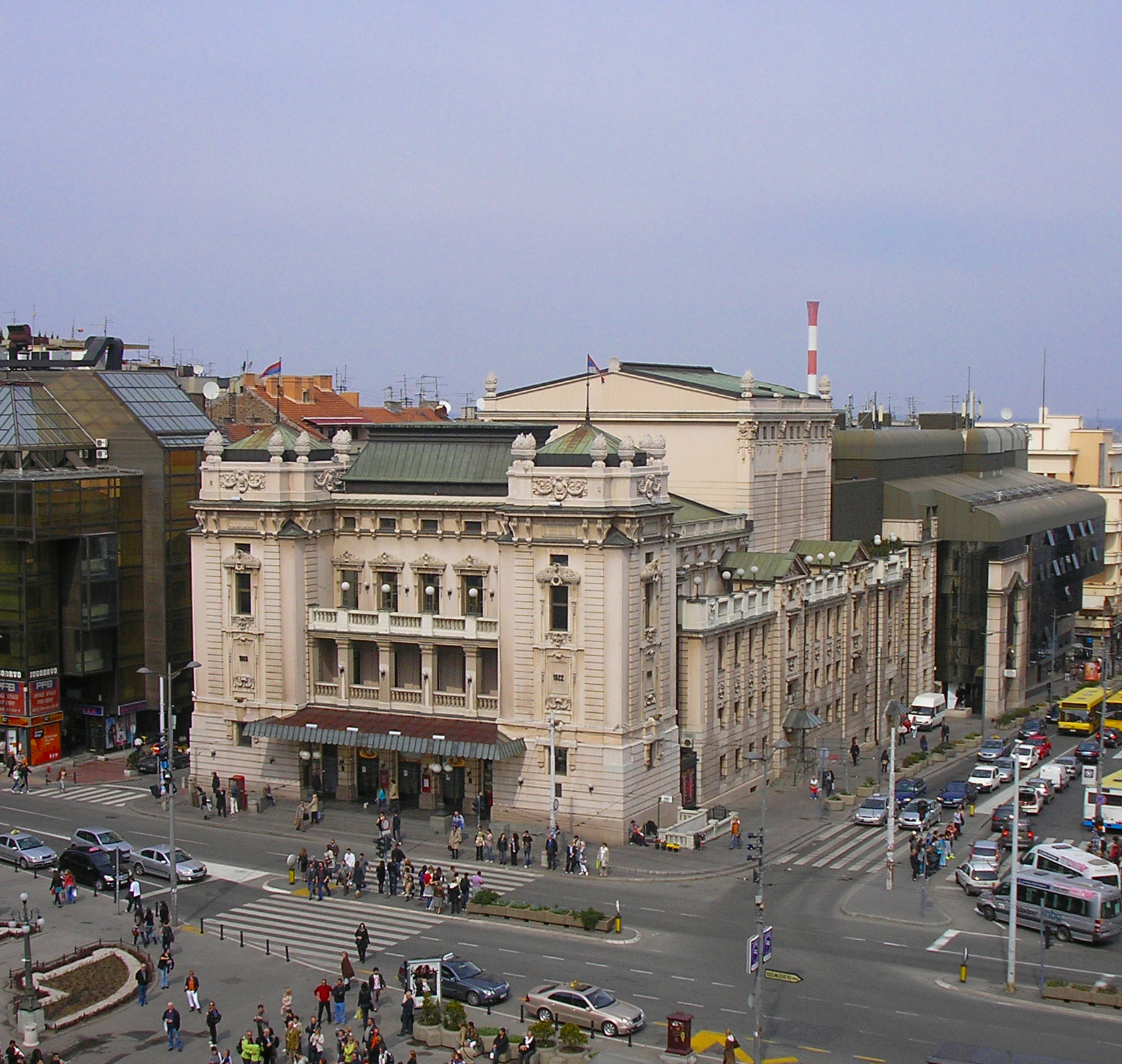 National Theatre in Belgrade, Serbia.